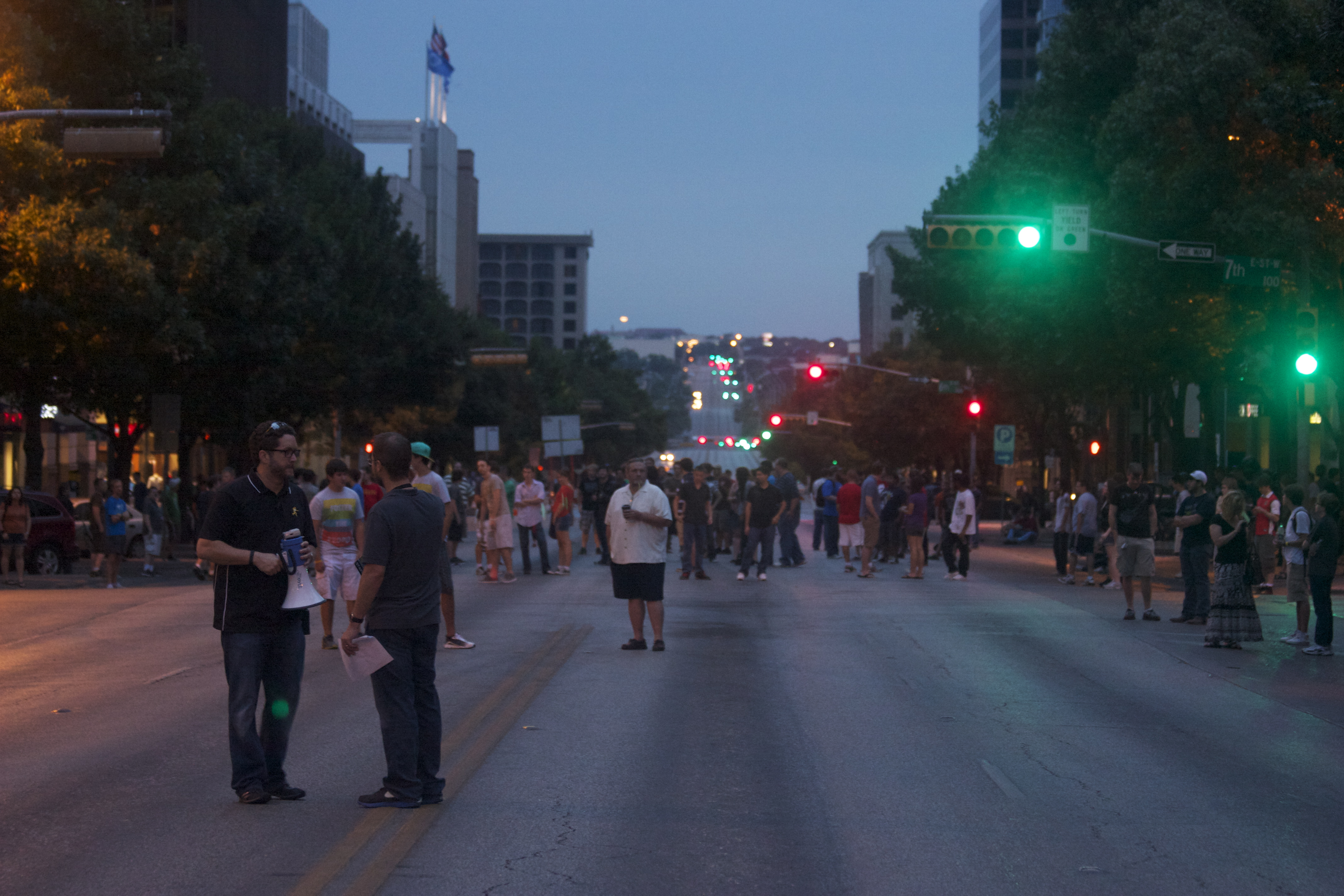 Day 5 Shoot - Downtown Austin